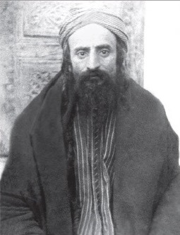 Photo of Chief Rabbi, Yiyha Yitzhak Halevi, taken in Yemen around 1915. Other information The photo was made in Yemen around 1915.